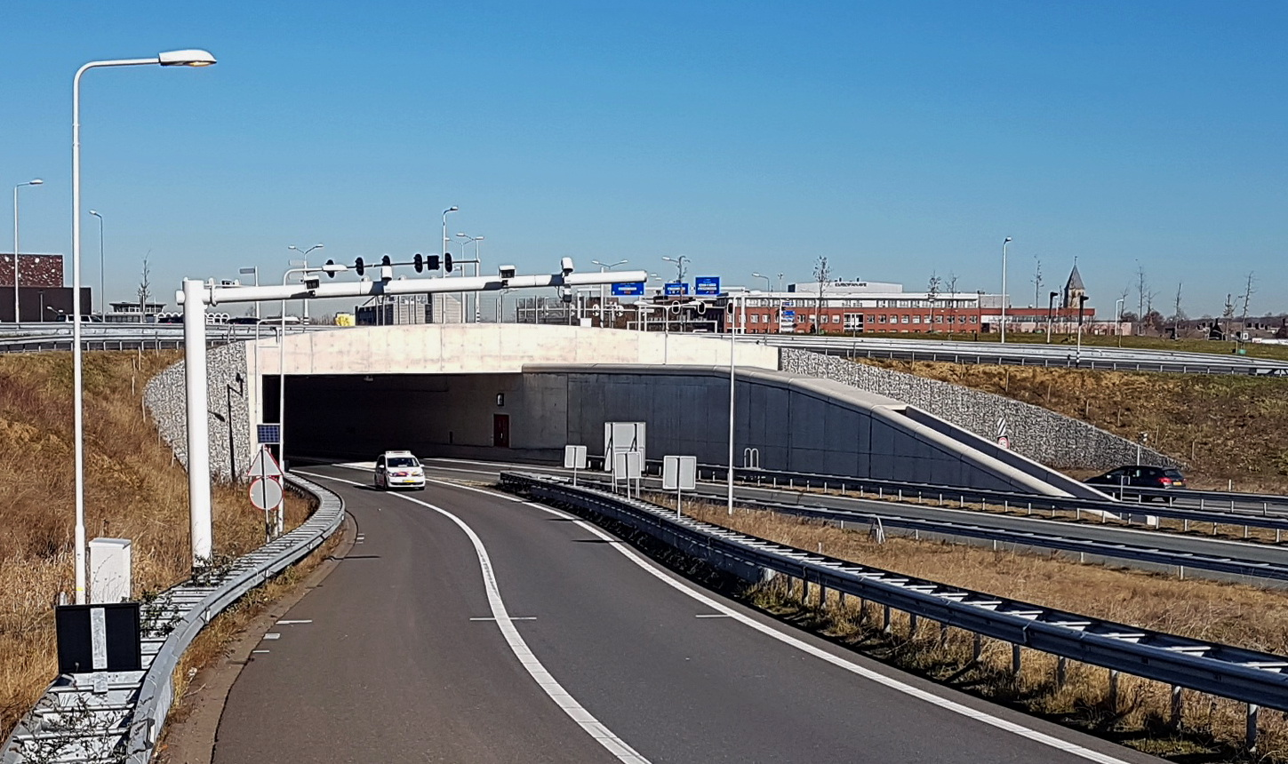 Zicht vanuit het zuiden op de snelweg A2, de omgeving van het Europaplein en de zuidelijke tunnelmond van de Koning Willem Alexandertunnel in Maastricht.